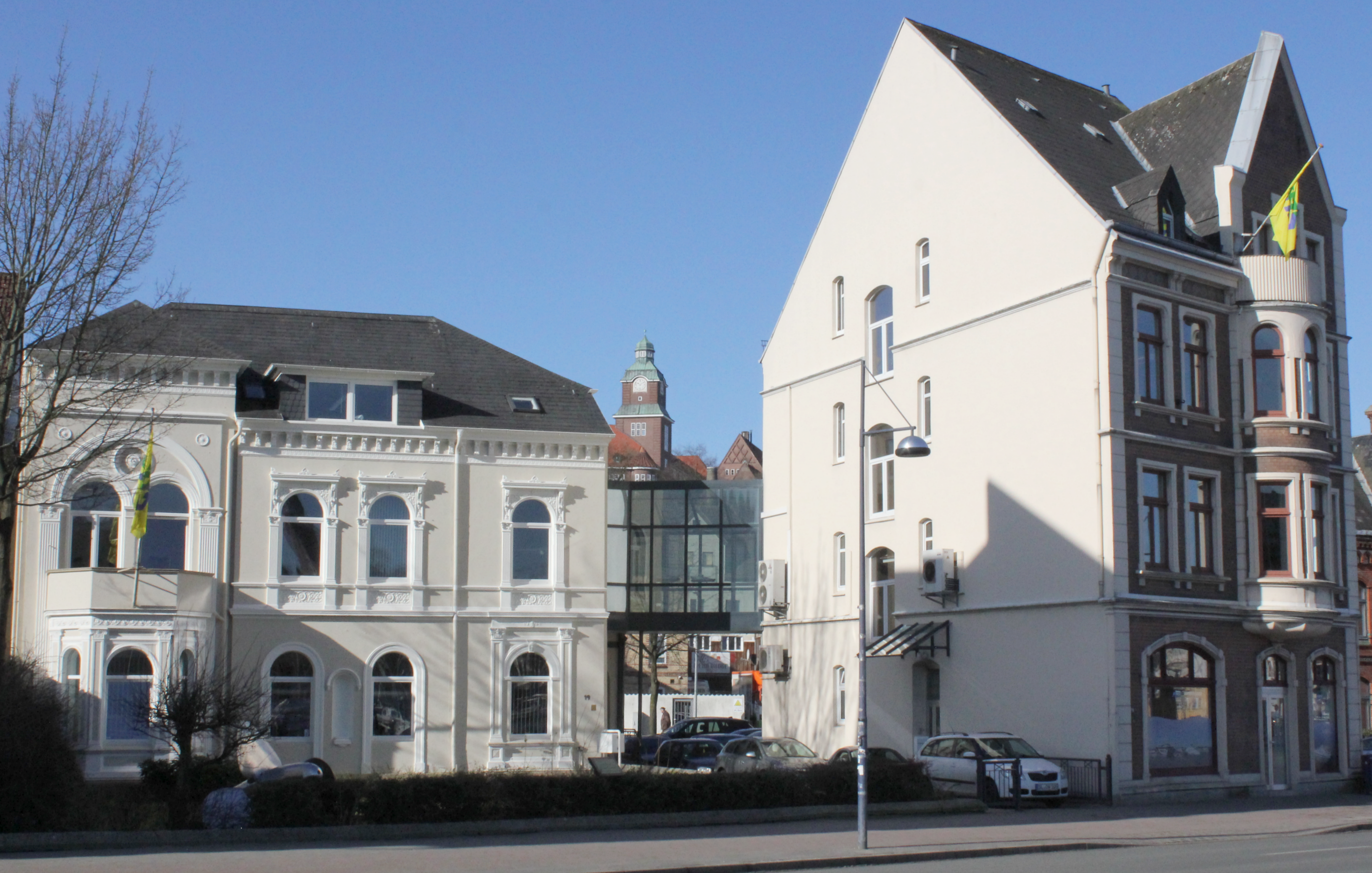 Headquarters of FRS Foerde Reederei Seetouristik GmbH & Co. KG, Norderhofenden 19-20, 24937 Flensburg, Germany